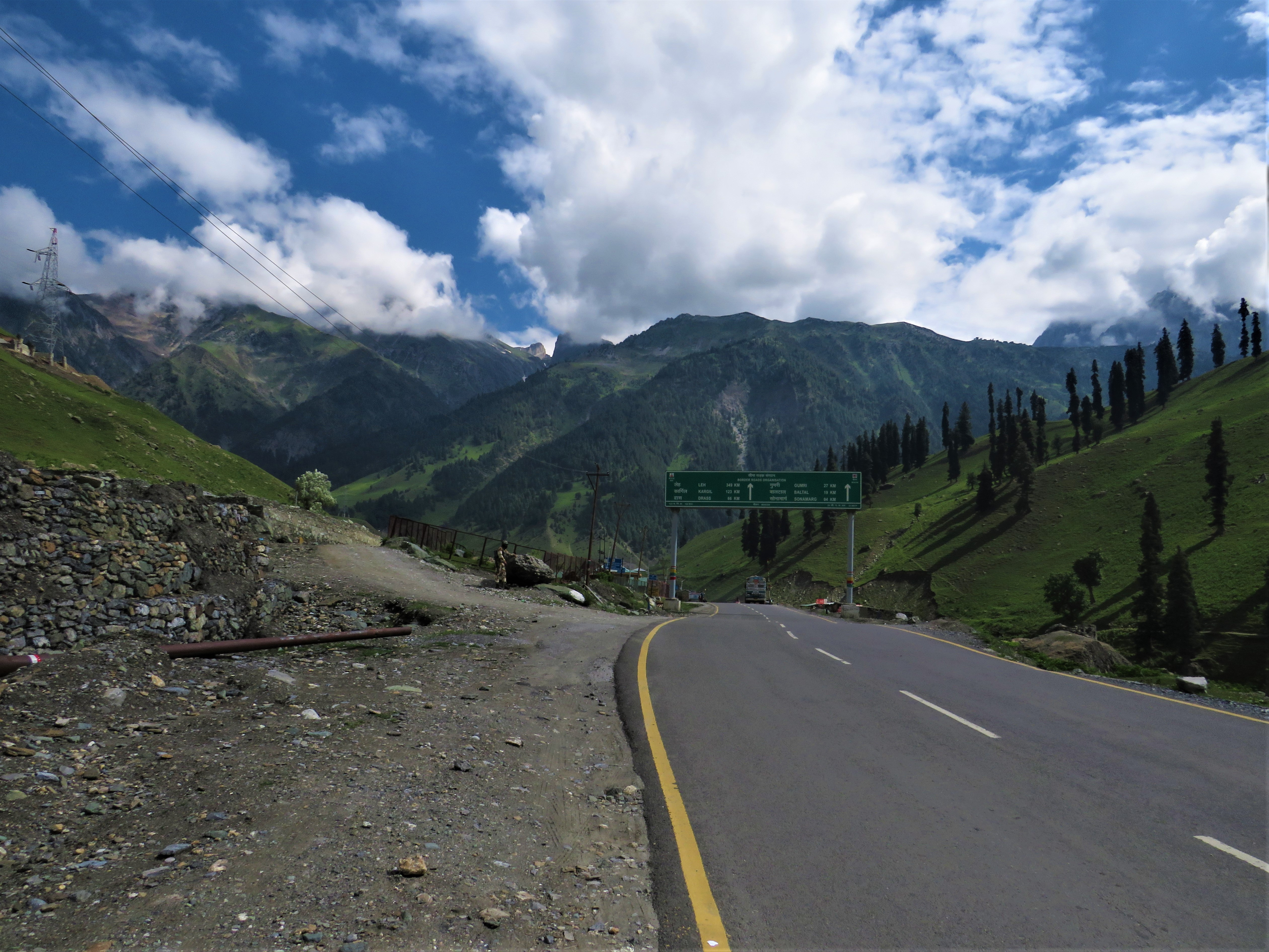 National Highway No 1 view from Sonamarg